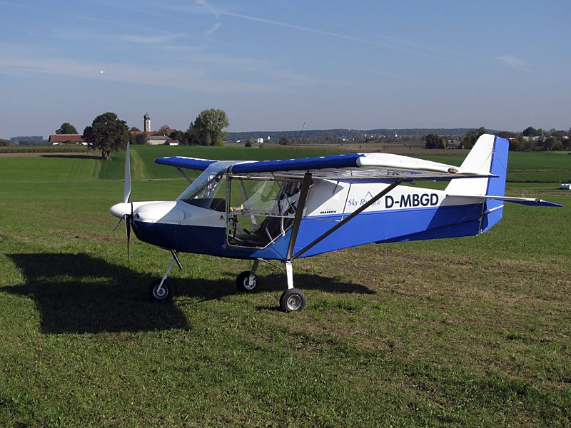 Skyranger Swift Light Sport Aircraft